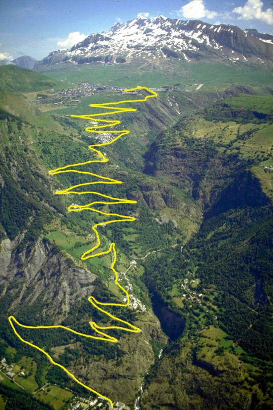 View of the L'alpe d'Huez serpentines.